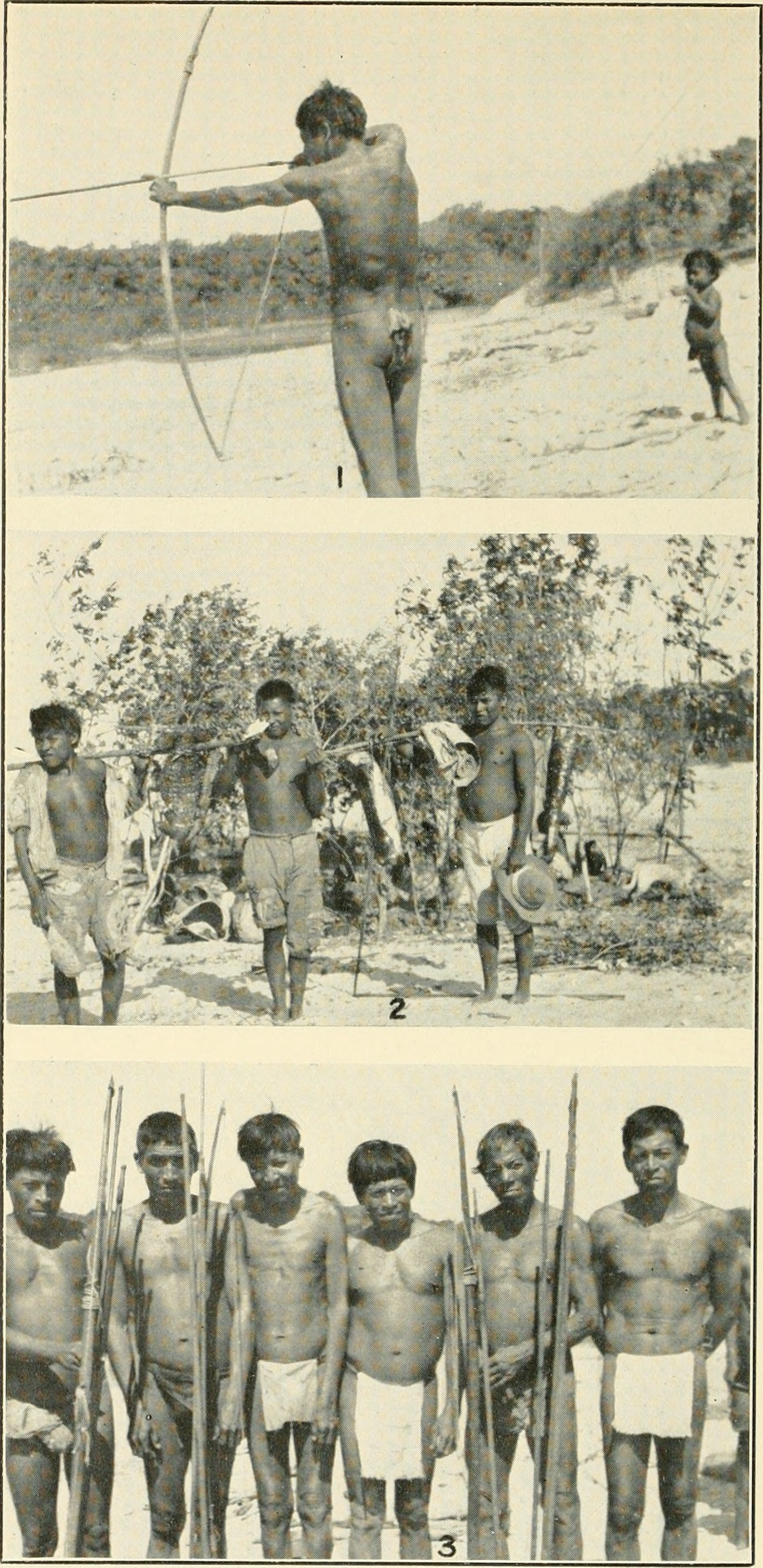 Title: Bulletin Year: 1901 (1900s) Authors: Smithsonian Institution. Bureau of American Ethnology Subjects: Ethnology Publisher: Washington : G. P. O. Text Appearing Before Image: BUREAU OF AMERICAN ETHNOLOGY BULLETIN 123 PLATE 12 Text Appearing After Image: /. \ aruro bowman. The arrow is held to the strins between the forefinger and thumb. The middle and fourth finger help pull the string back. 2. Crocodile meat is a staple food. The legs and tail have been cut ofl' to make carrying easier. 3. Yaruros of Lagunote wearing parts of author's towels for breechclouts.